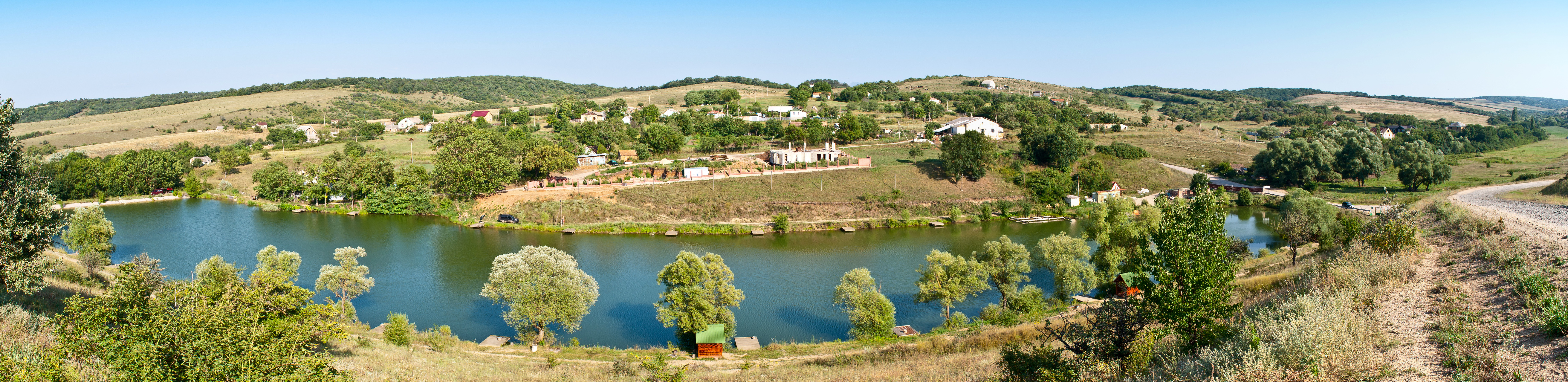 Panorama foto of the village Klinivka (Simferopol district, Crimea, Ukraine)